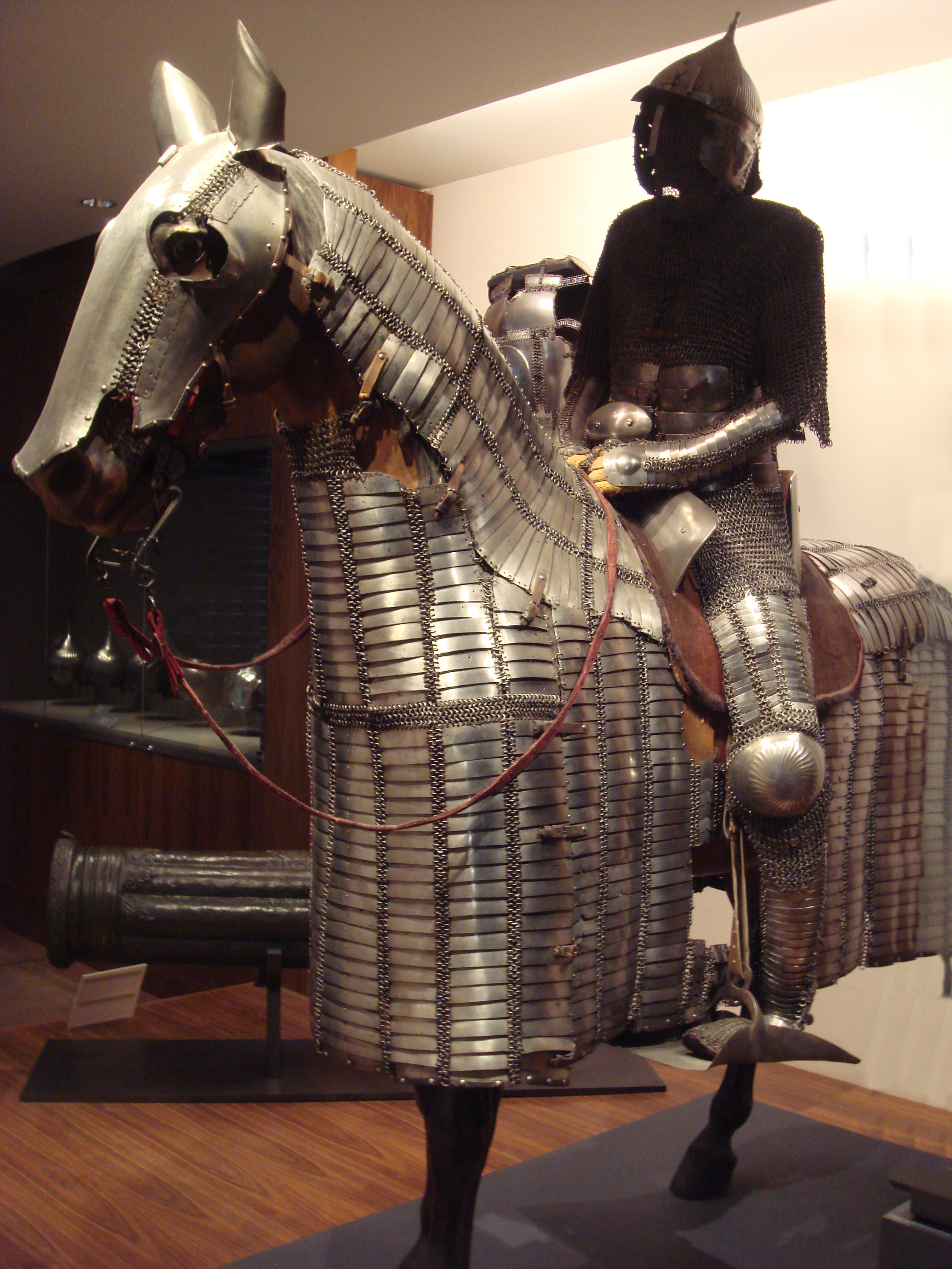 Ottoman or Mamluk_horseman_circa_1550_front.